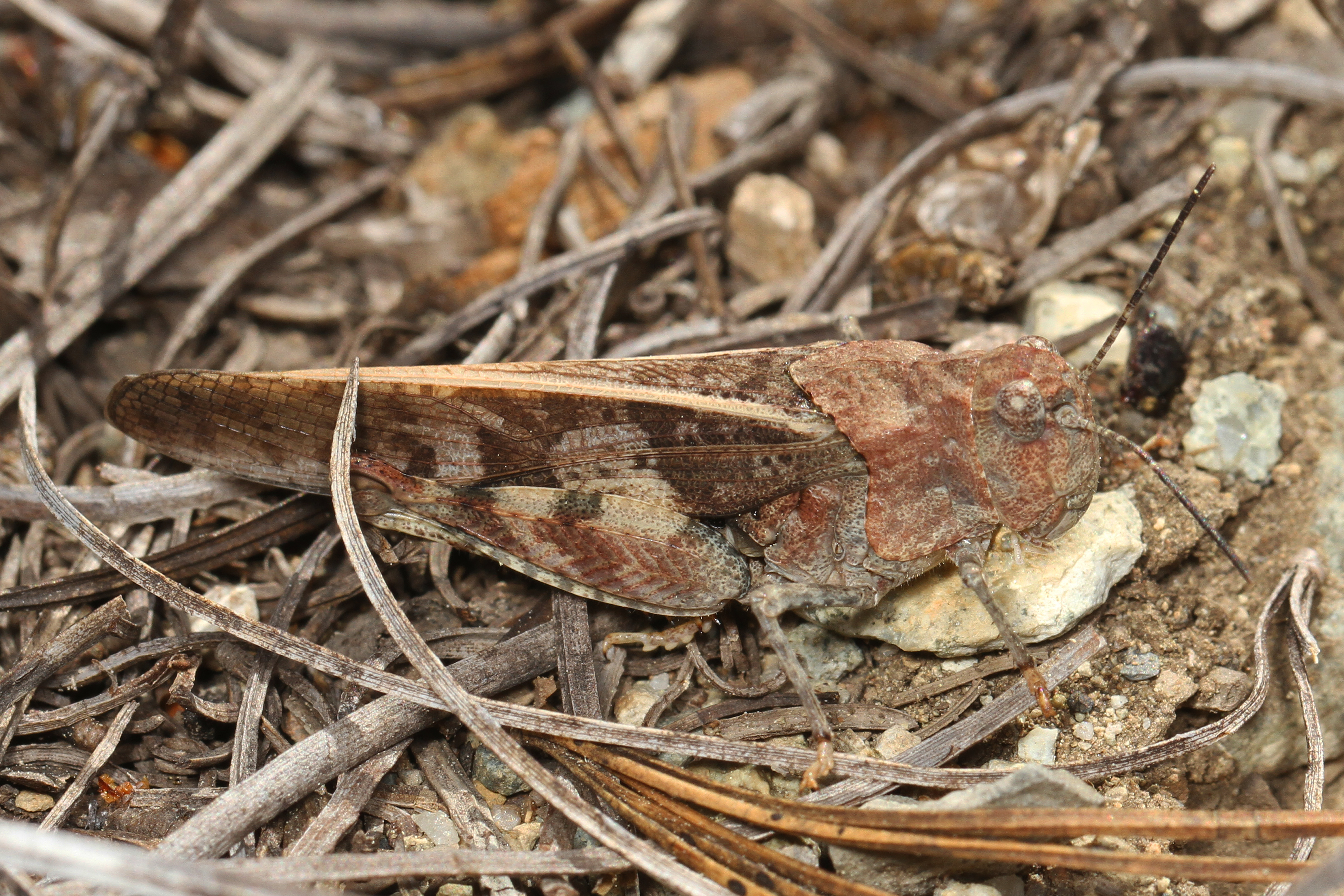 Pronotal Range Grasshopper - Cratypedes neglectus, Packer Lake, California.